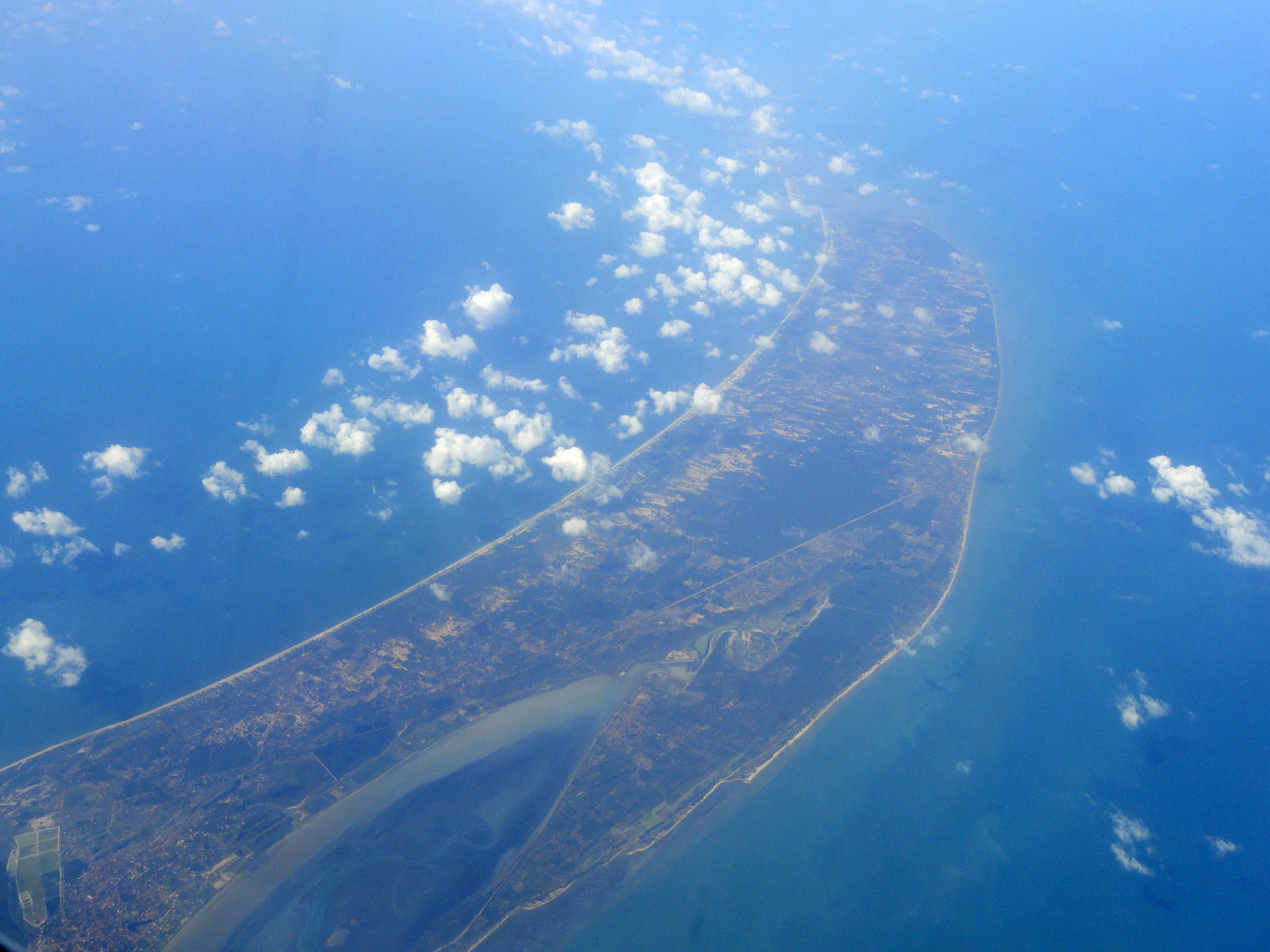 Mannar Island, Mannar District, Sri Lanka.